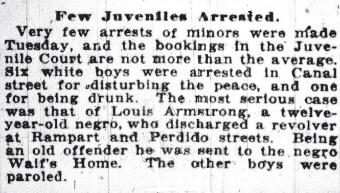 New Orleans "Times-Democrat" newspaper item, 2 January 1913. Noting arrests at New Year celebrations, including young Louis Armstrong. (Armstrong was sentenced to time in the "Colored Waif's Home", where he learned trumpet.)